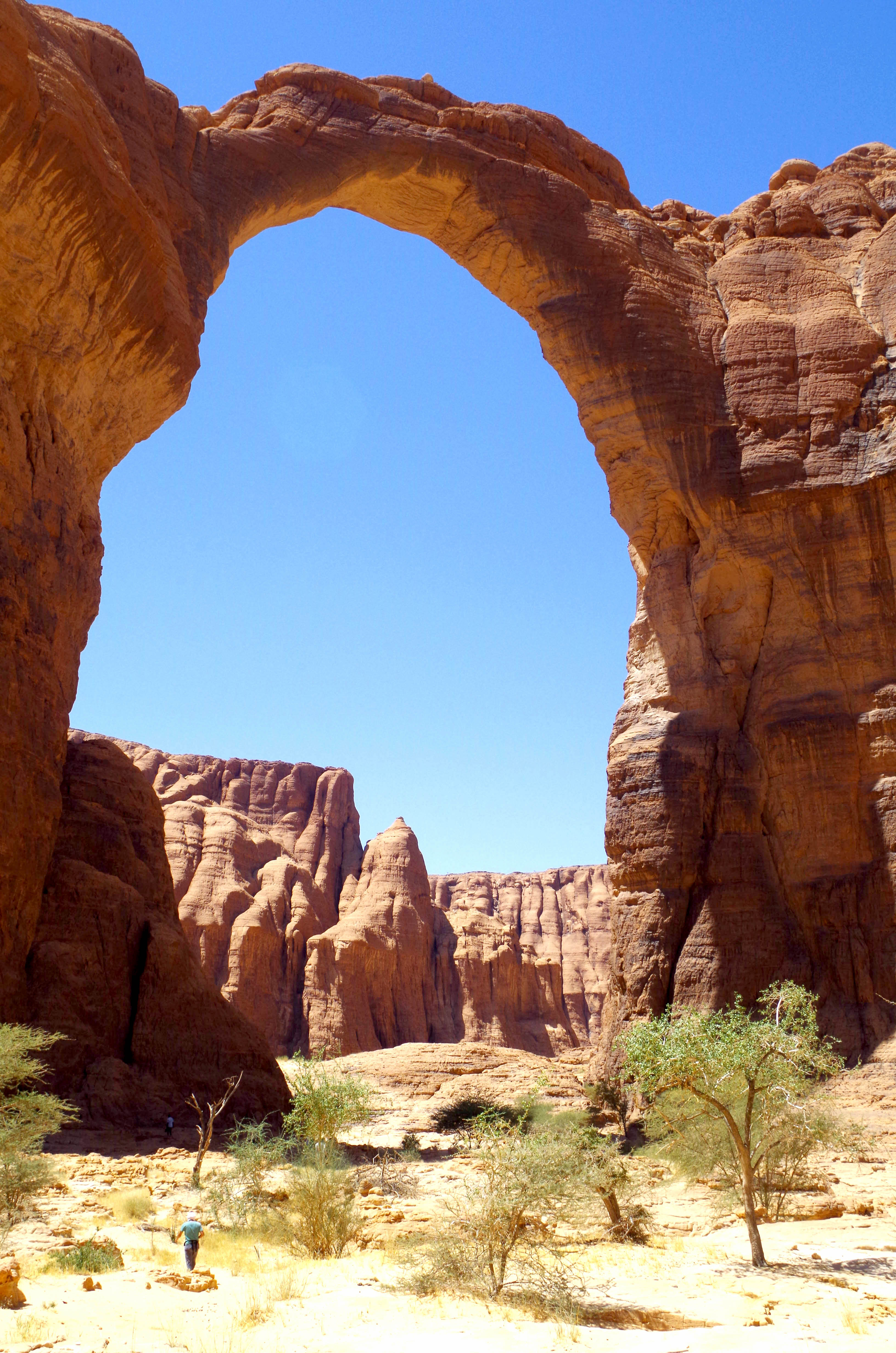 Aloba Arch, Ennedi, Chad